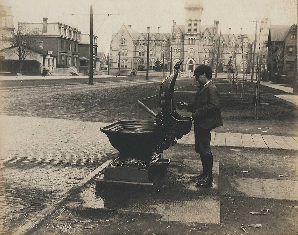 Commissioned by the City Engineer and taken by F.W. Micklethwaite, image shows a drinking fountain at College Street and Spadina Avenue, Toronto, Ontario, Canada. Fountains such as this, designed to accomodate horses on one side and people on the other, were common in Toronto in the late nineteenth century. Later deemed a health hazard by the Health Department, only one remains on King Street East near St. James Cathedral.